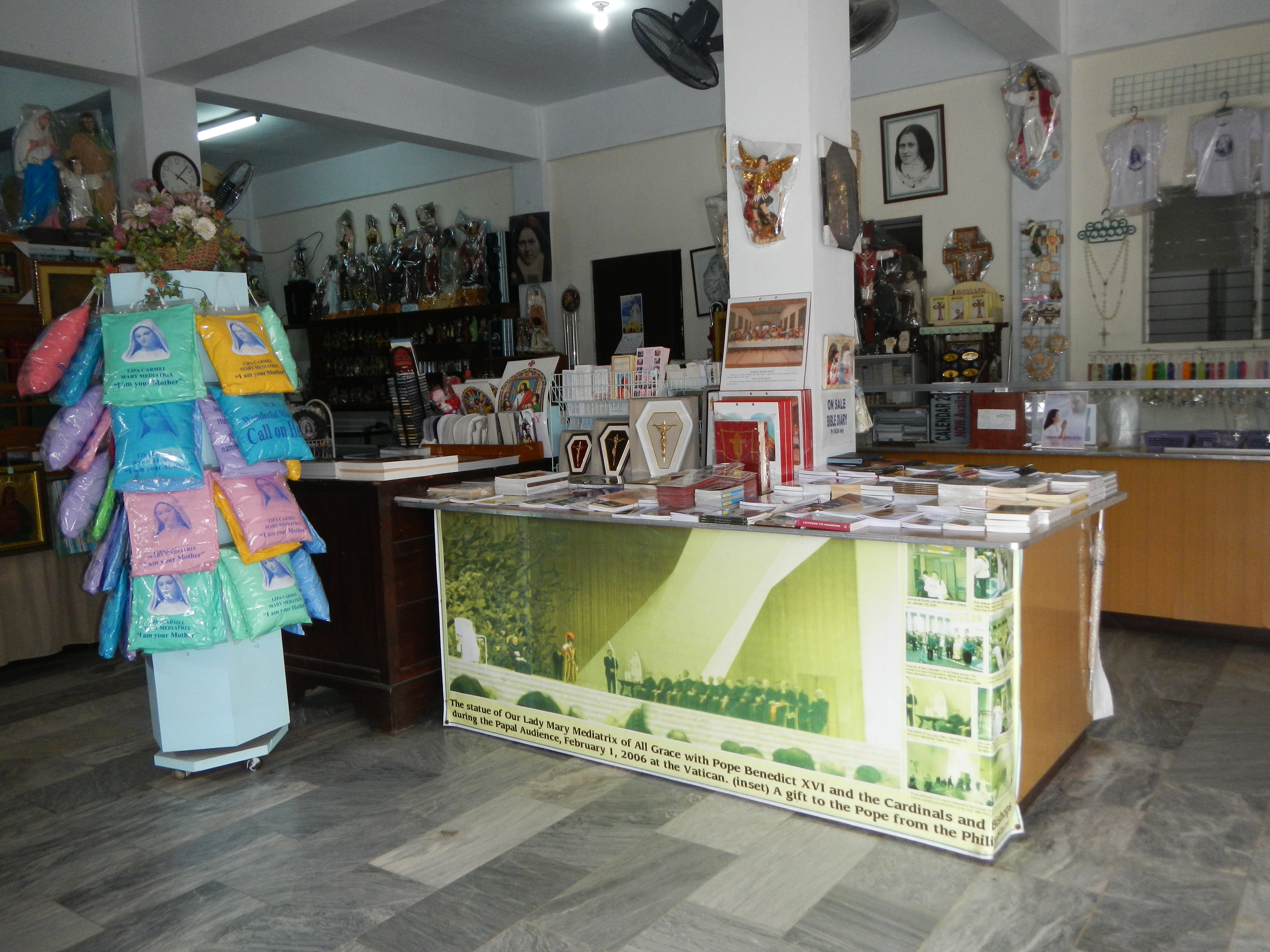 Our Lady Mediatrix of All Graces [1] Our Lady of Mediatrix of All Graces (Spanish: Nuestra Senora de la Medianera de toda gracia